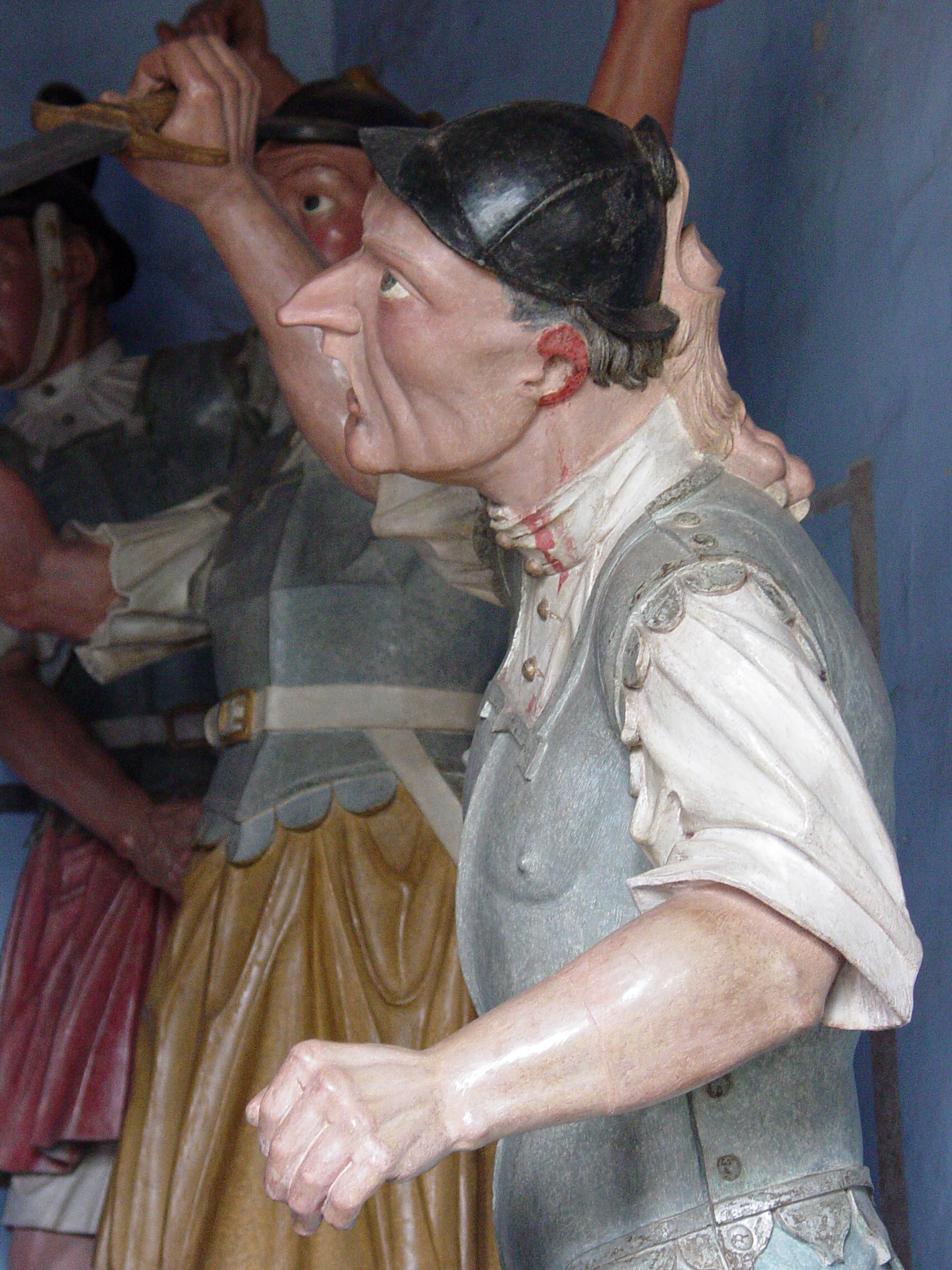 Congonhas is a formerly wealthy, today rather scruffy mining town in Minas Girais, renowned for one magnificent work: the "12 Profetas" of Brazil's (and the Americas') greatest sculptor, Aleijadinho, whose final masterpiece was to adorn the Santuário do Senhor Bom Jesus de Mastosinhos with his statues of the Old Testament prophets, and, in the chapels below the basilica, exquisite baroque carvings of the passion of Christ (shown in this photo). Aleijadinho did all this in the mid- to late-18th century, until his great old age, crippled, with the sculpting tools strapped to his hands, and with the help of a retinue of acolytes (it is uncertain how much of the work he personally sculpted, and how much he simply directed).